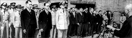 Inauguration Ceremony of the Japanese Defense Agency in July 1954.